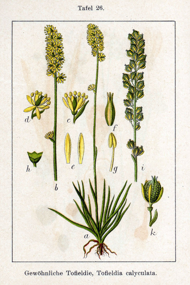 Tofieldia calyculata (L.) Wahlenb. Original Description Gewöhnliche Tofieldie, Tofieldia calyculata